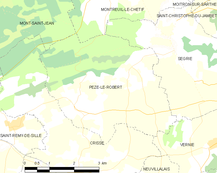 Map of French municipality